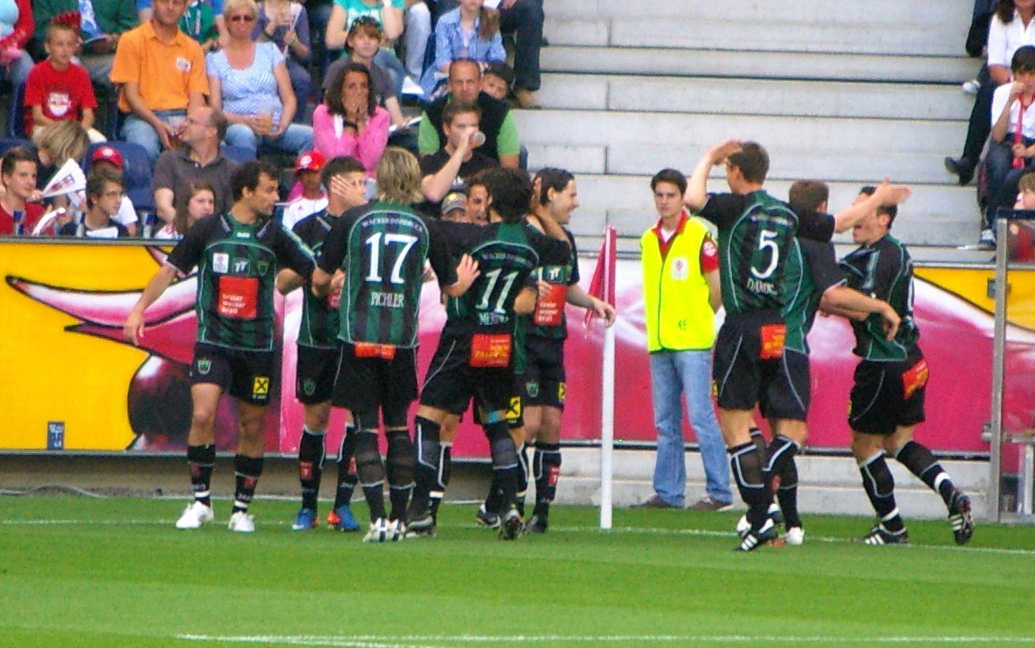 league match Players of Wacker Innsbruck celebrating 0:1